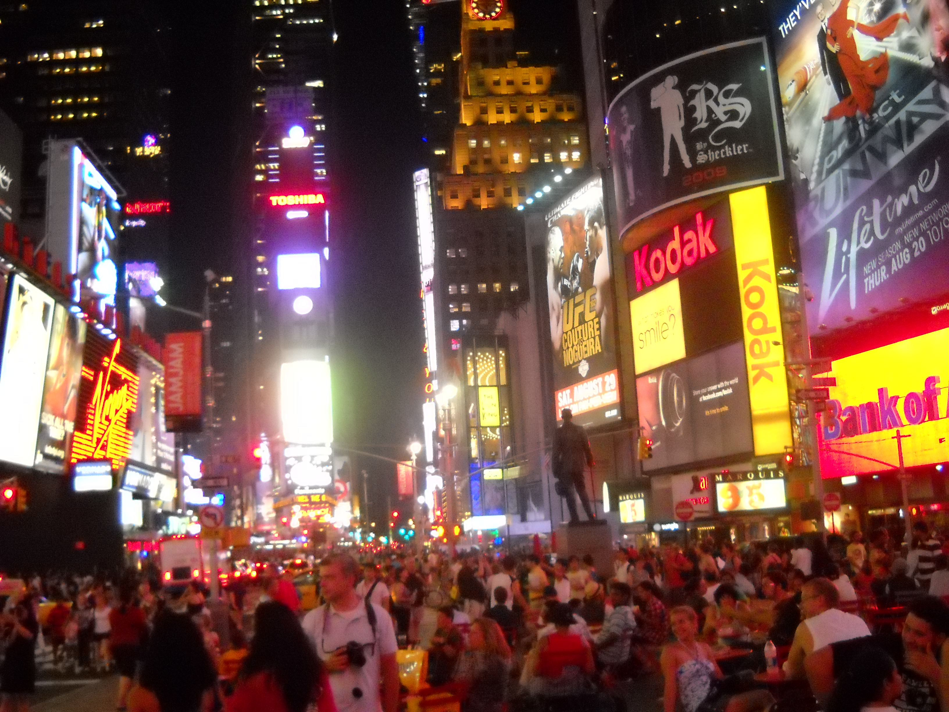 Times Square, 2009, New York